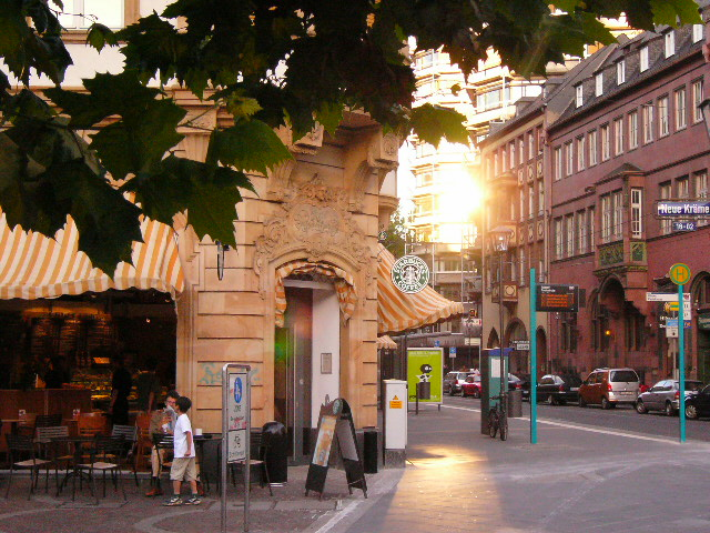 Starbucks in Frankfurt, Germany. Picture taken by Antonio Allah - Fall 2004. Map on Flickr